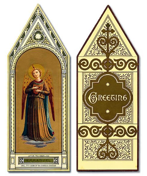 “After Fra Angelico - Emmanuel - Hail the sun of righteousness” Front and back of large bookmark greeting card produced by Marcus Ward & Co Limited 82 x 228mm (3¼ x 9in)